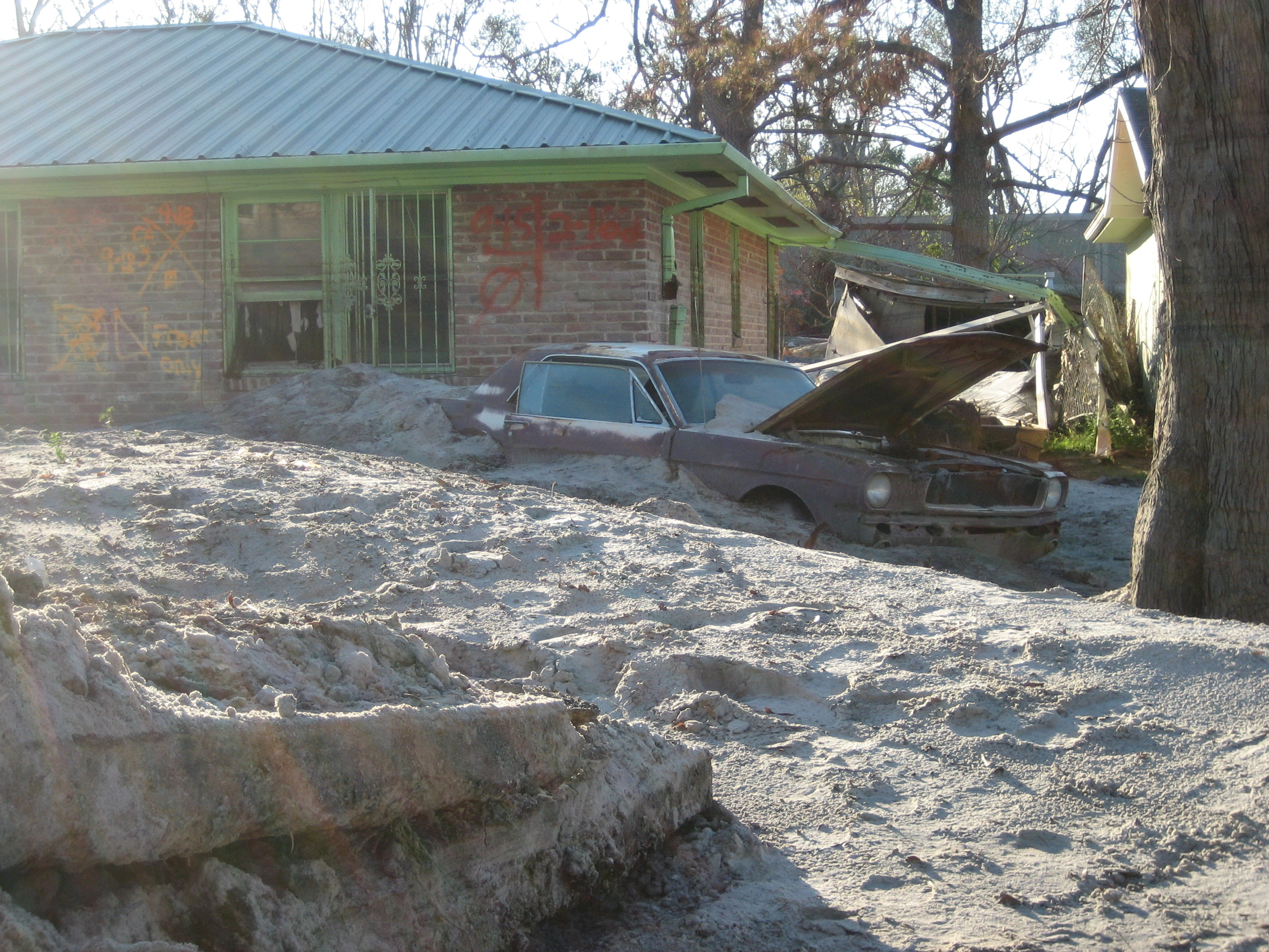 New Orleans after Hurricane Katrina: Residential neighborhood a few blocks from the lower breach of the London Avenue Canal; flooding left house and automobile deep in silt. Search & rescue team markings visible on house.